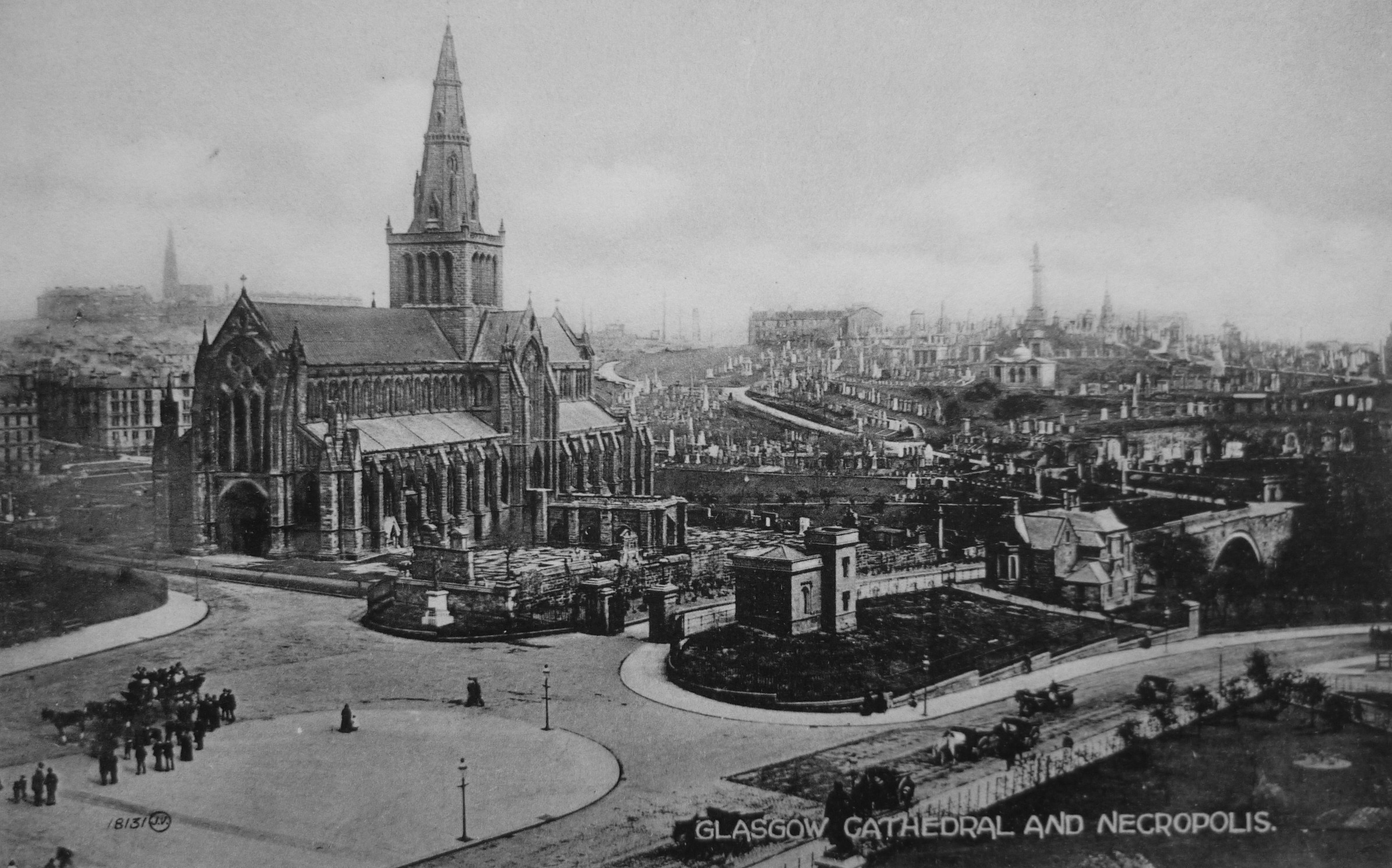 Valentine's postcard of Glasgow Cathedral And Necropolis